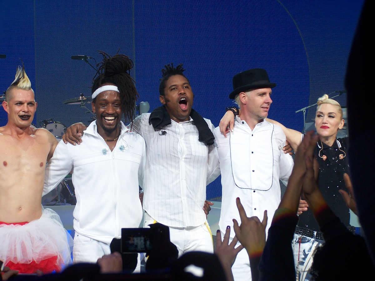 No Doubt performing in Milwaukee.